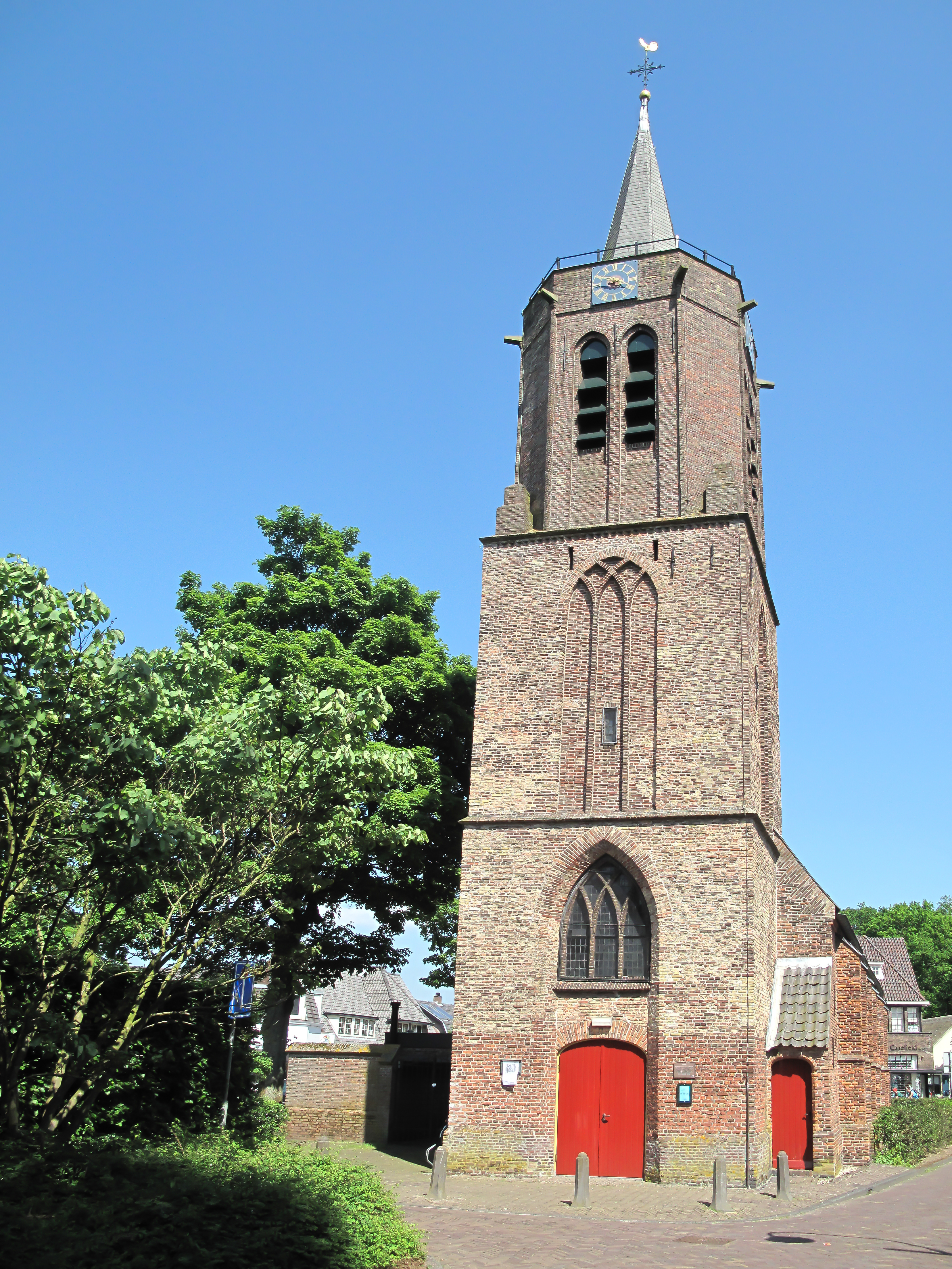 Laren, church: de Johanneskerk